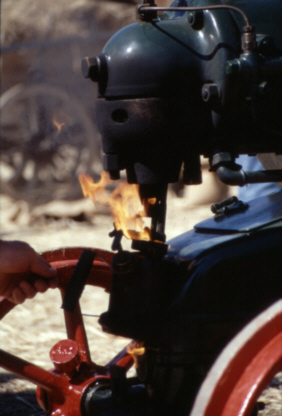 Using a blow lamp to heat up the hot bulb engine of a model HM LANZ Bulldog with 8 HP.